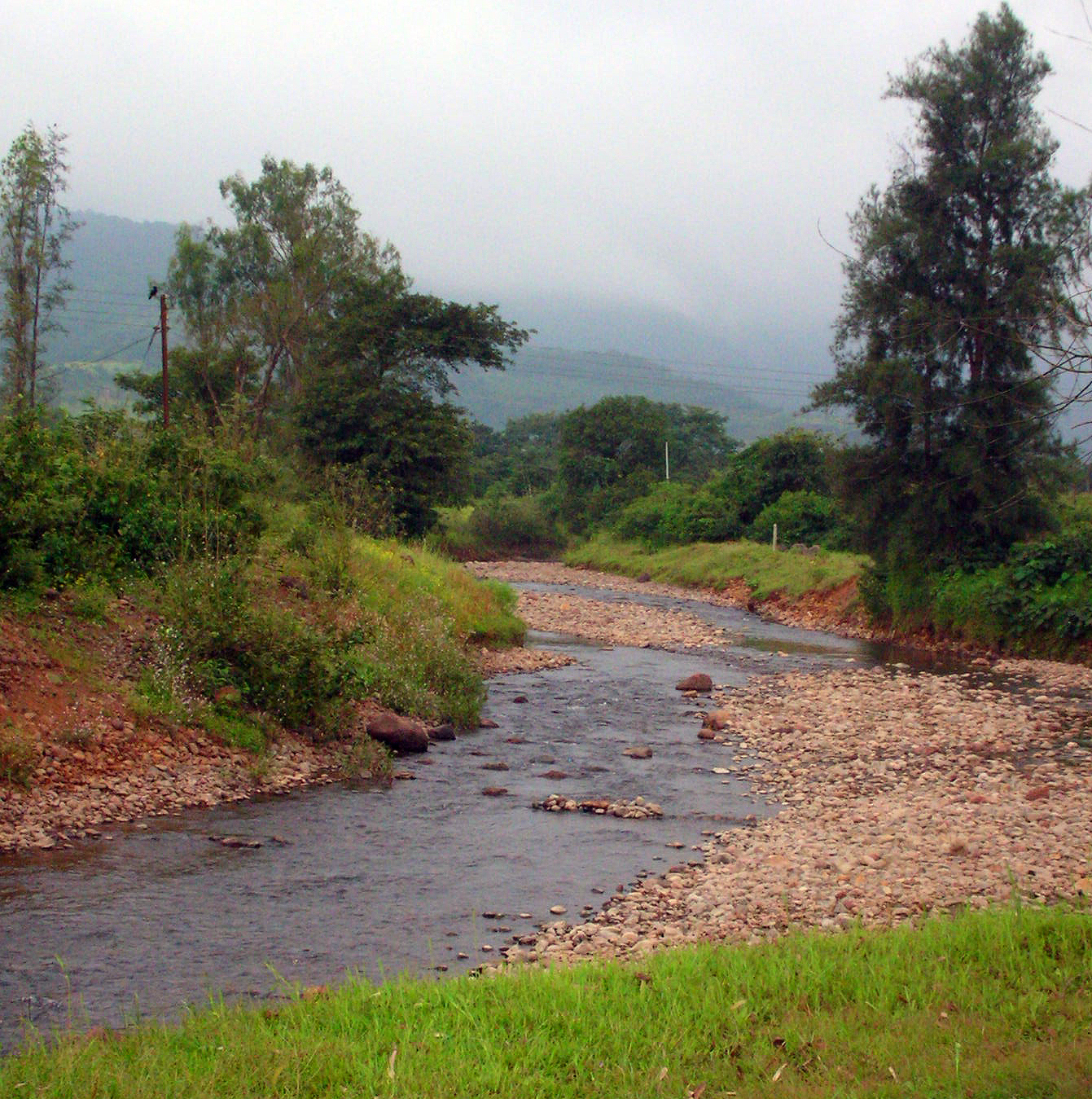 A late winter evening photograph of a flowing stream.